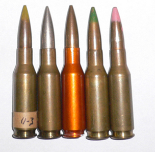 Photograph of various .280 Ball Cartridges. Orange cased cartridge is made out of aluminium. Photograph taken by user JamesL85.